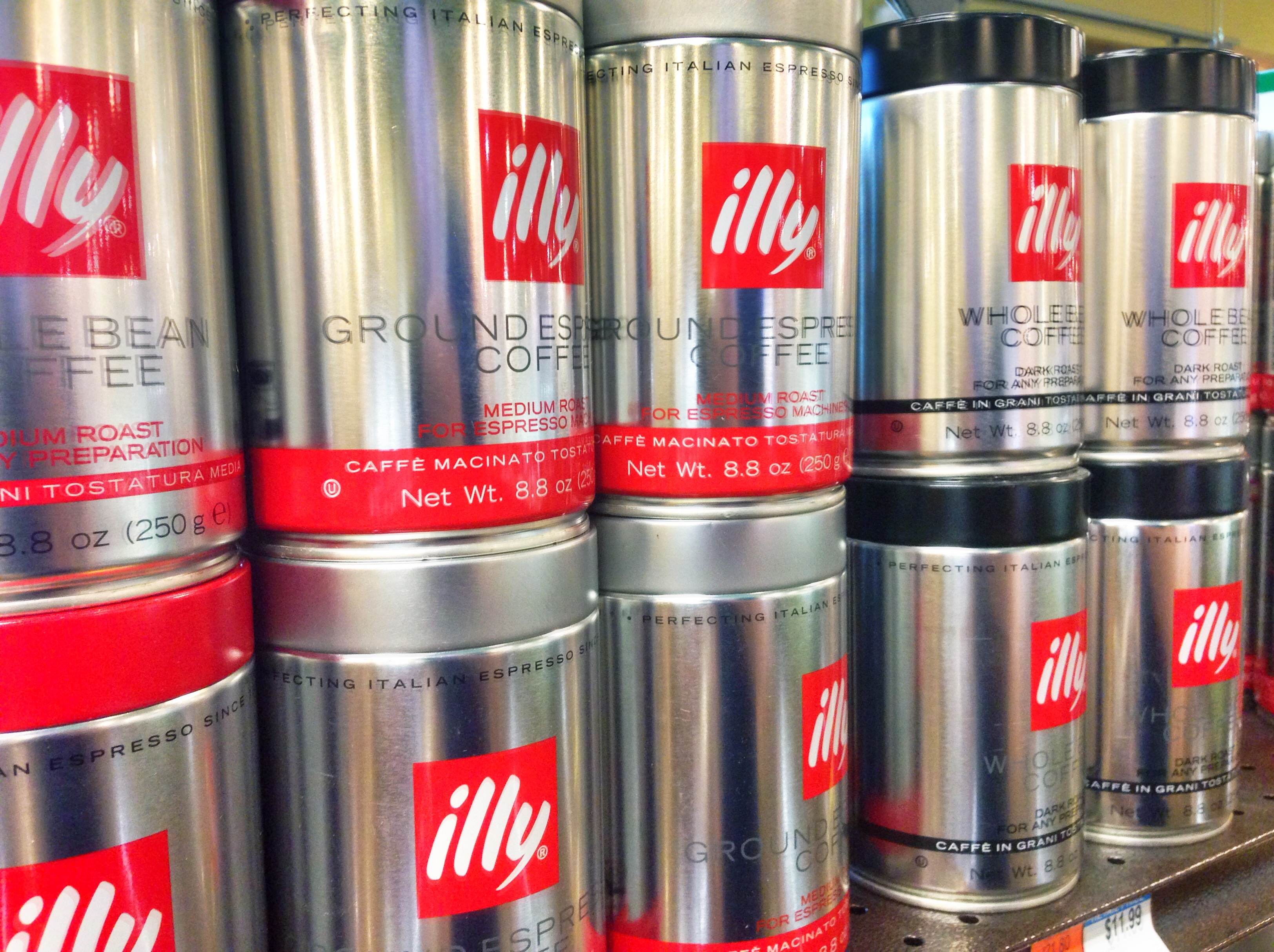 illy coffee jars beans - Sept, 2014